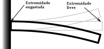 CantileverBeam